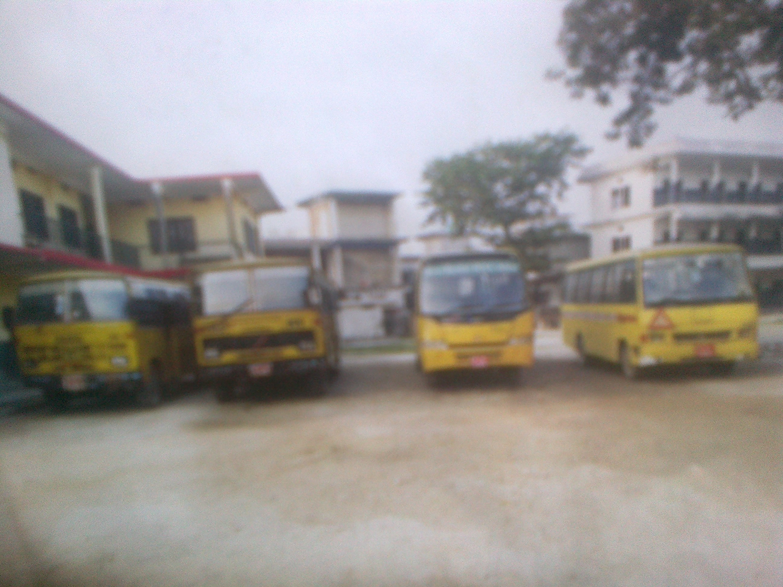 Photo showing buses in shree harikul.